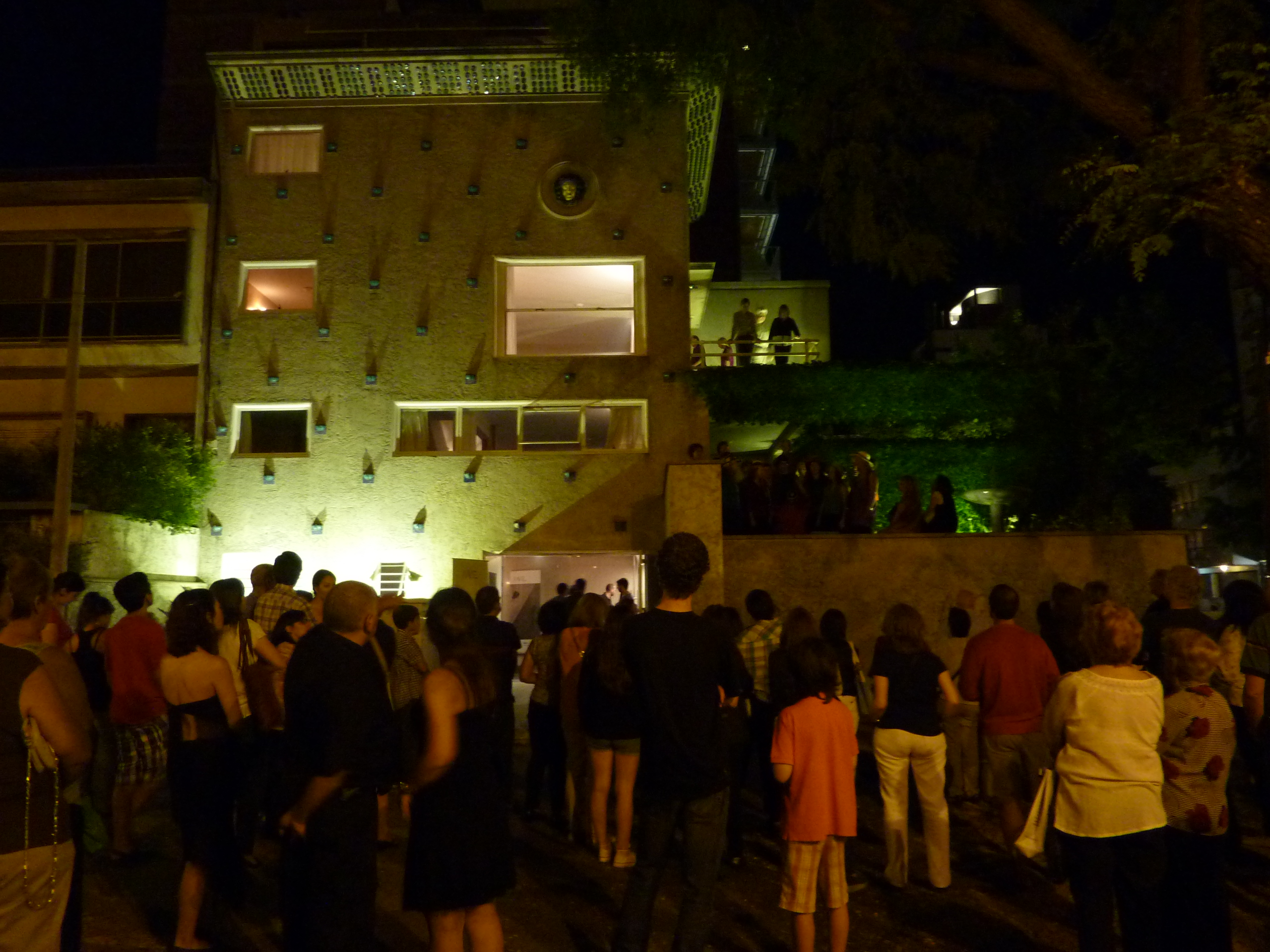 Museo Casa Vilamajó - Museos en la noche